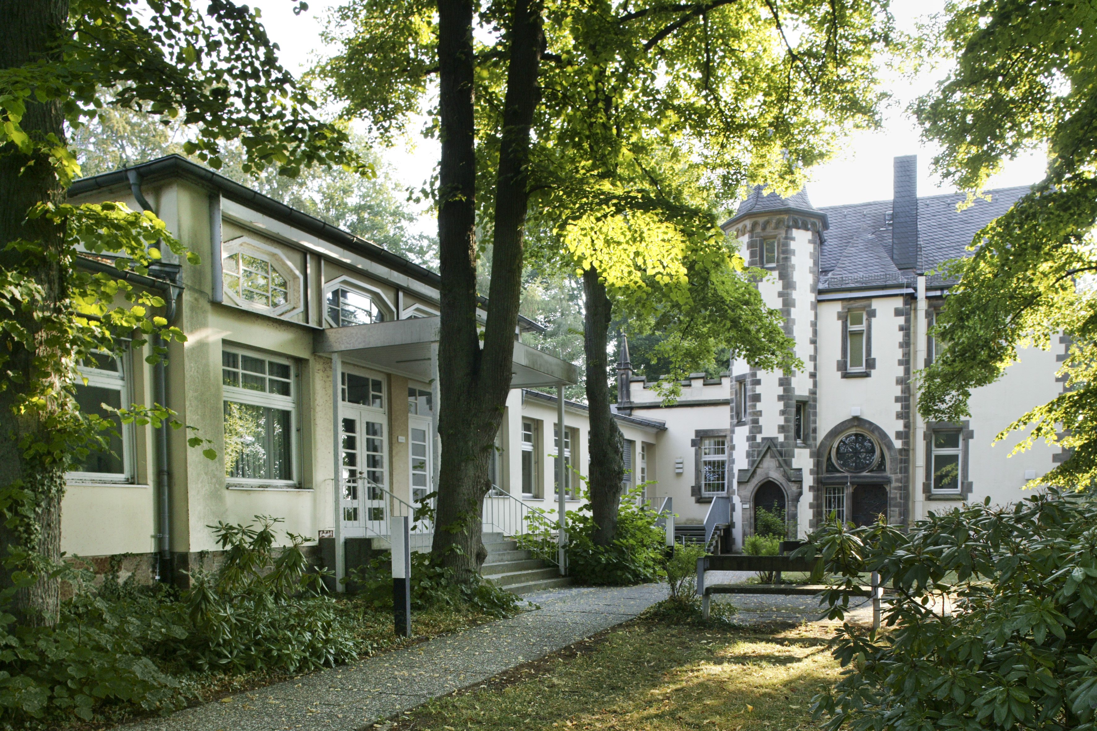 Herder Institute in Marburg/Germany, Villa Behring